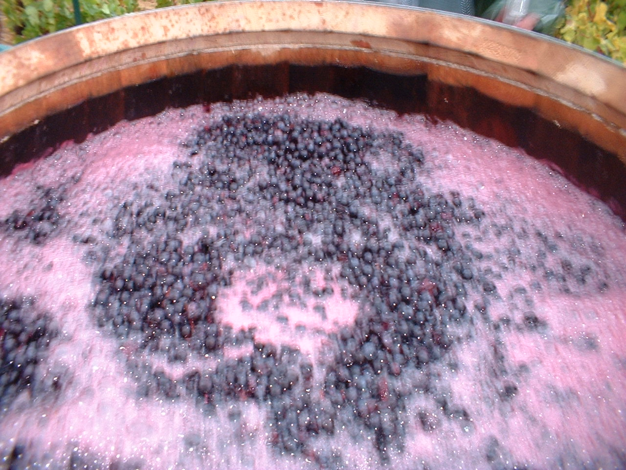 From author: CO2 rising after the grapes are loosened during a light pigeage